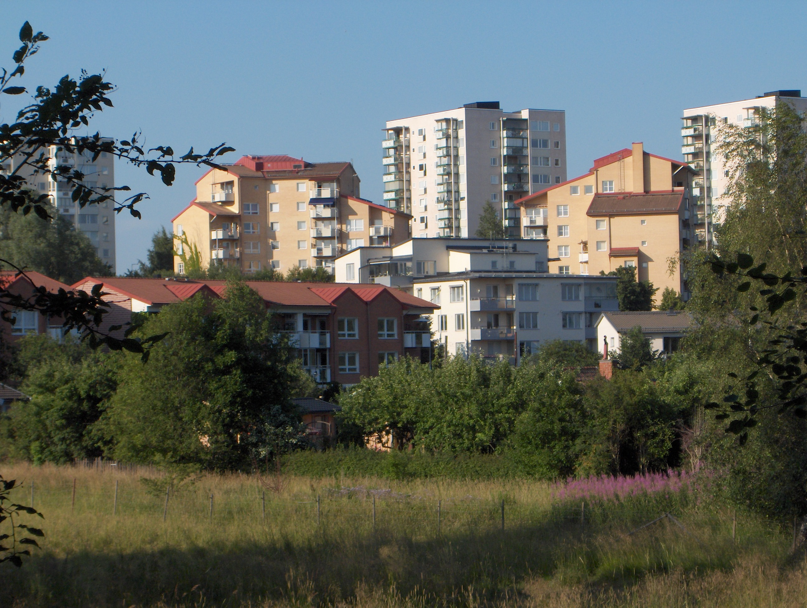 Houses in southern Bergshamra, Solna, Sweden.